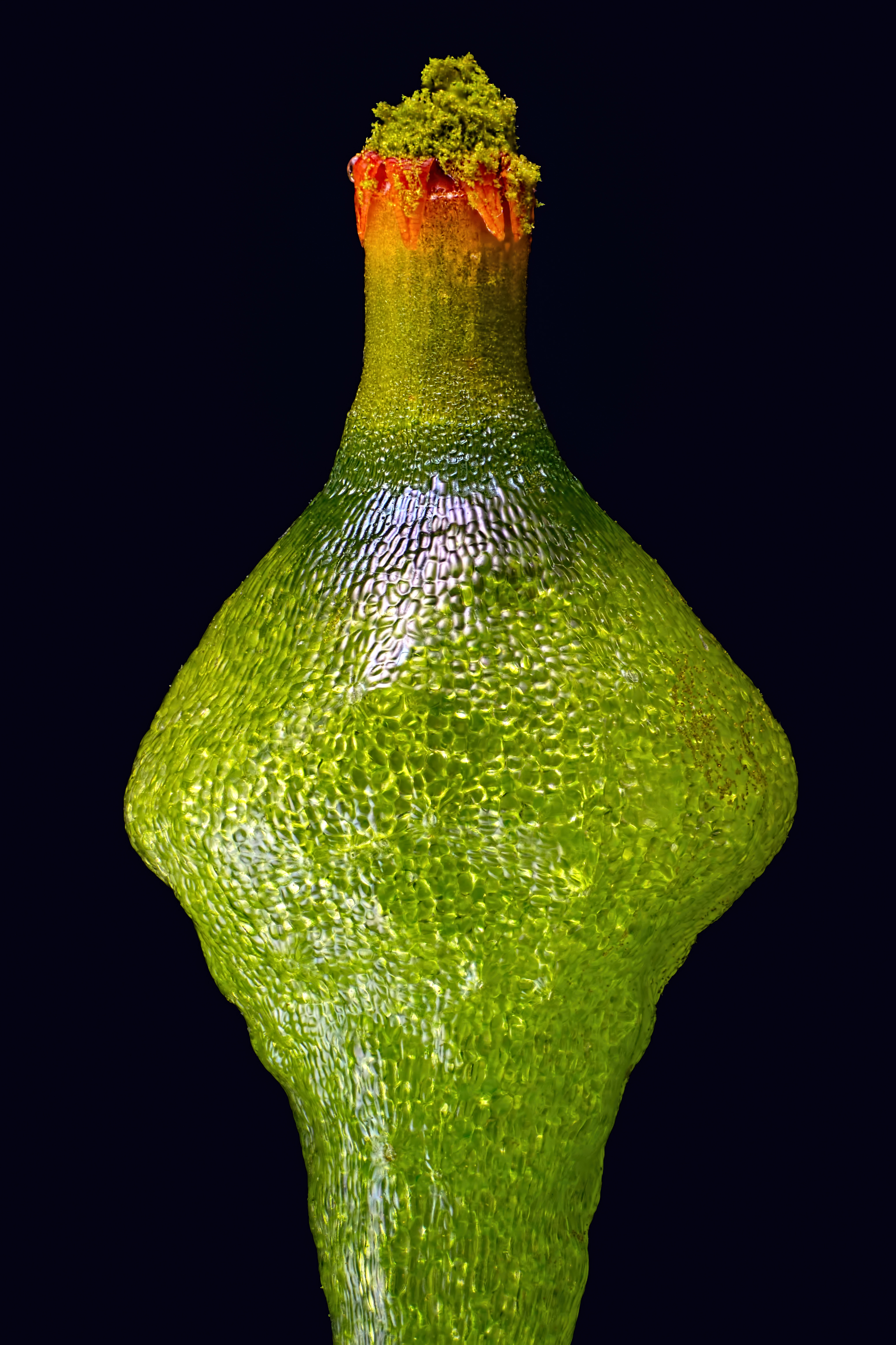 Young sporophyte of Splachnum ampullaceum showing hypophysis (swollen region), reddish peristome and emergent spores